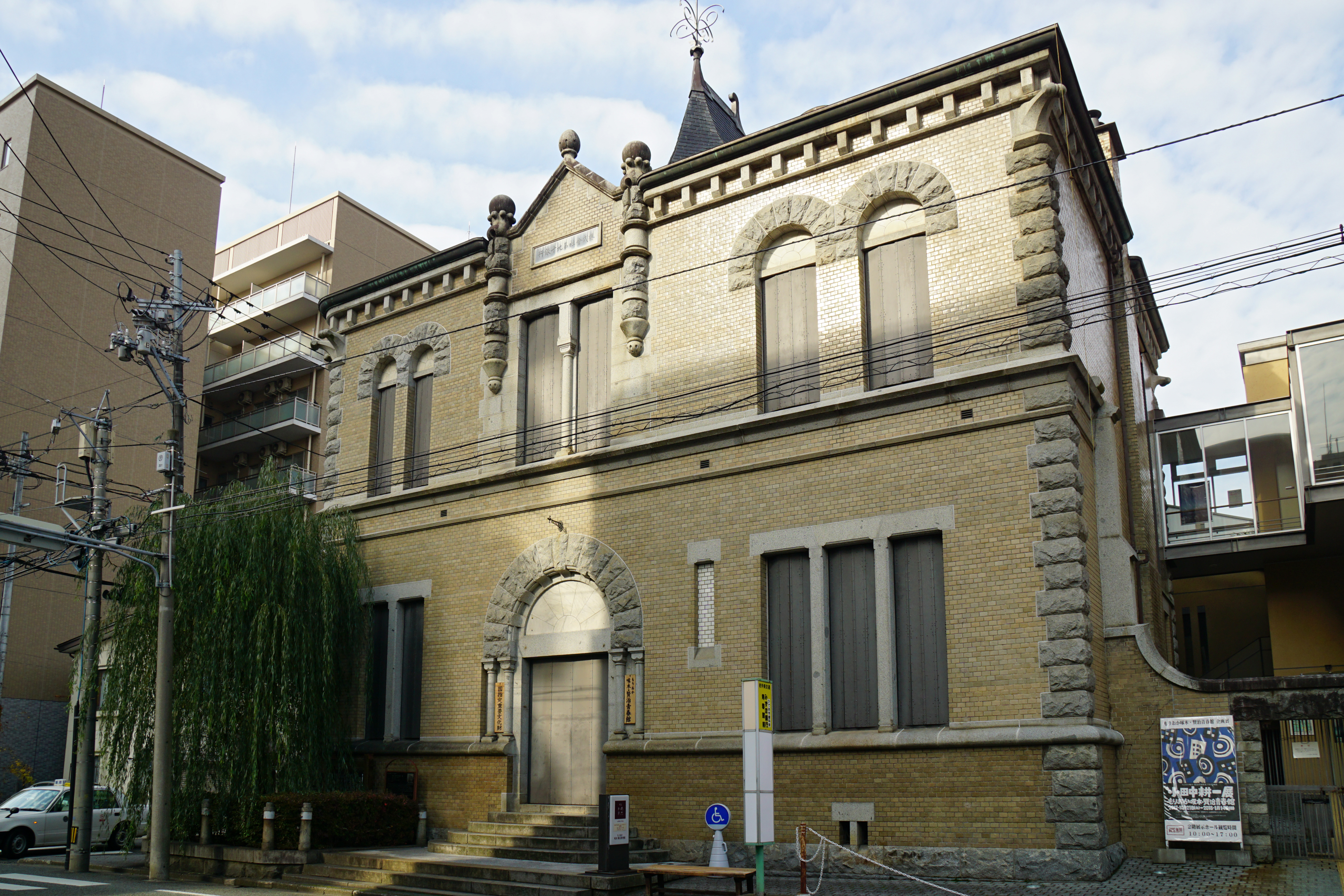 Morioka Takuboku and Kenji Museum in Morioka, Iwate prefecture, Japan